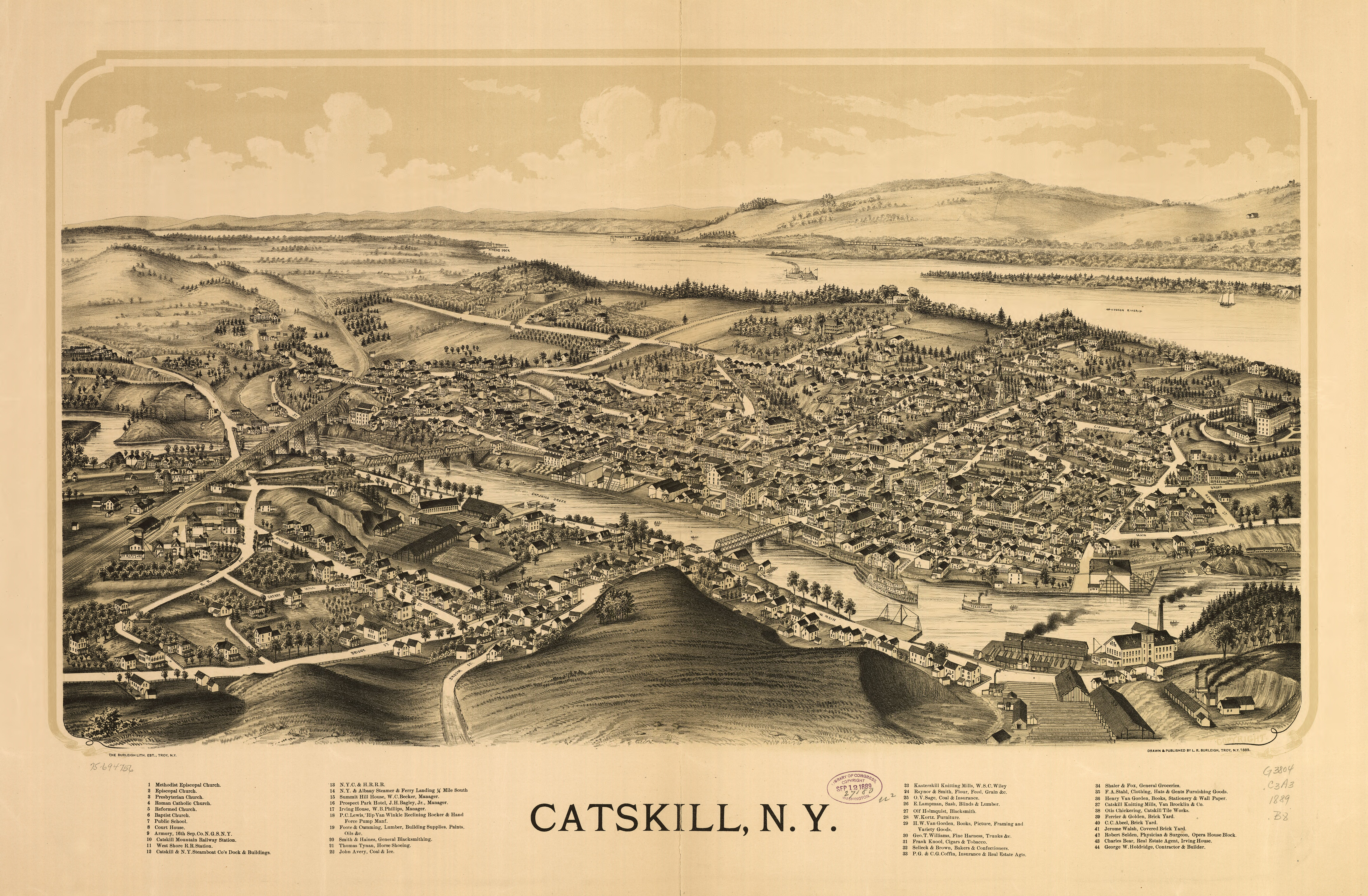 Perspective map not drawn to scale. Bird's-eye-view. LC Panoramic maps (2nd ed.), 549 Available also through the Library of Congress Web site as a raster image. Indexed for points of interest. AACR2